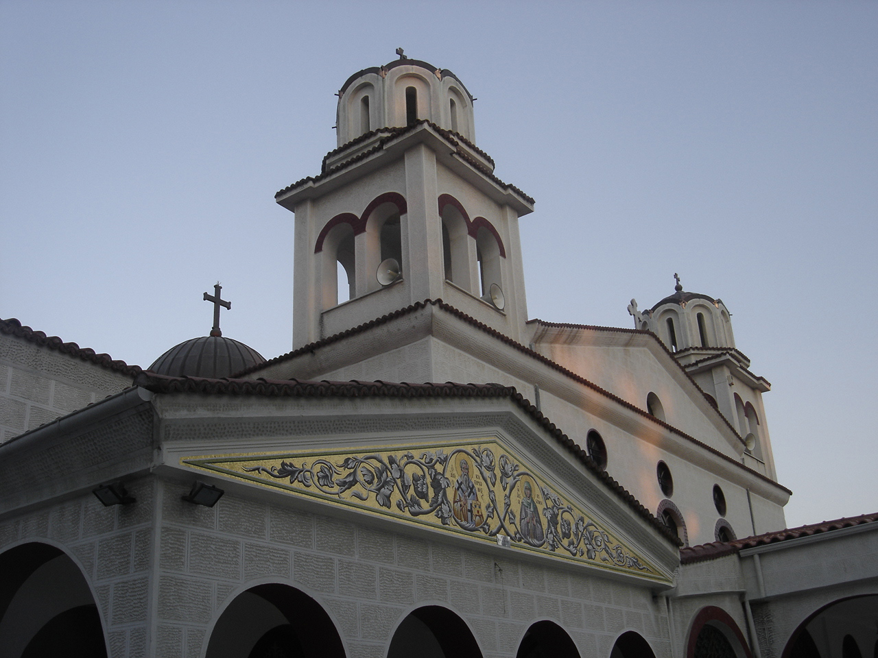 Metropolis (the metropolitan church) in Katerini.